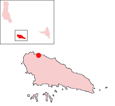 Hoani, Mohéli, Comoros Location Map; created with the GIMP. Made by User:Acntx.